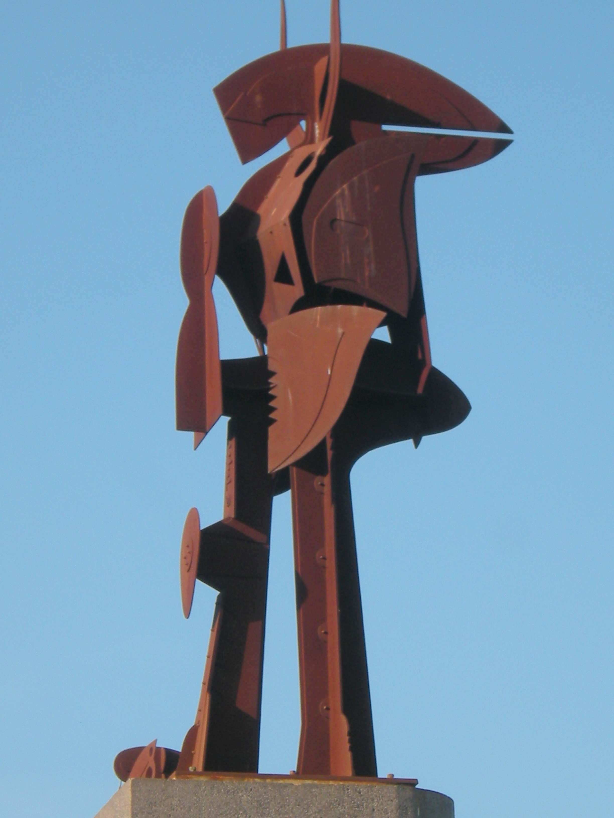 Sentinel Shinkichi Tajiri